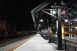 Ronaoke station in December 2017